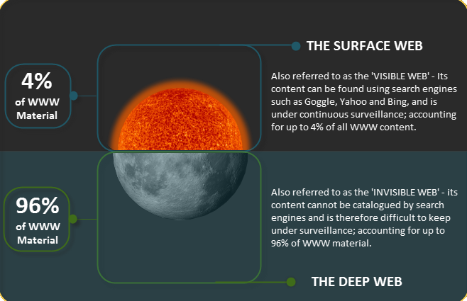 Diagram Of Deep Web